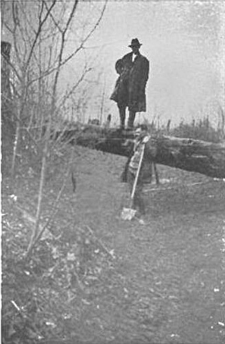 Aetna Earthworks, Missaukee County MI c1923. Prof. Hinsdale standing on tree crossing "moat", Prof Ruthven standing below.